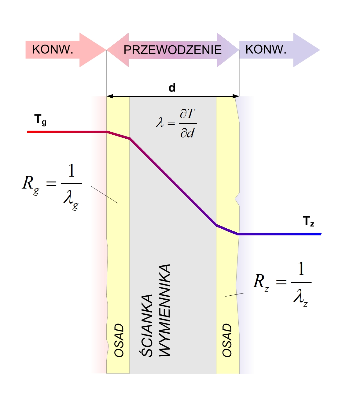 Heat transfer process across a heat exchanger wall